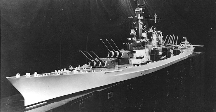 Model's conception of the Montana (BB-67—BB-71) class whose construction was cancelled on en:21 July en:1943. This model depicts the ship fitted with a heavy battery of anti-aircraft guns, as would have been the case had she been completed. Photo # USN 1144964, courtesy of the U.S. Naval Historical Center. Source